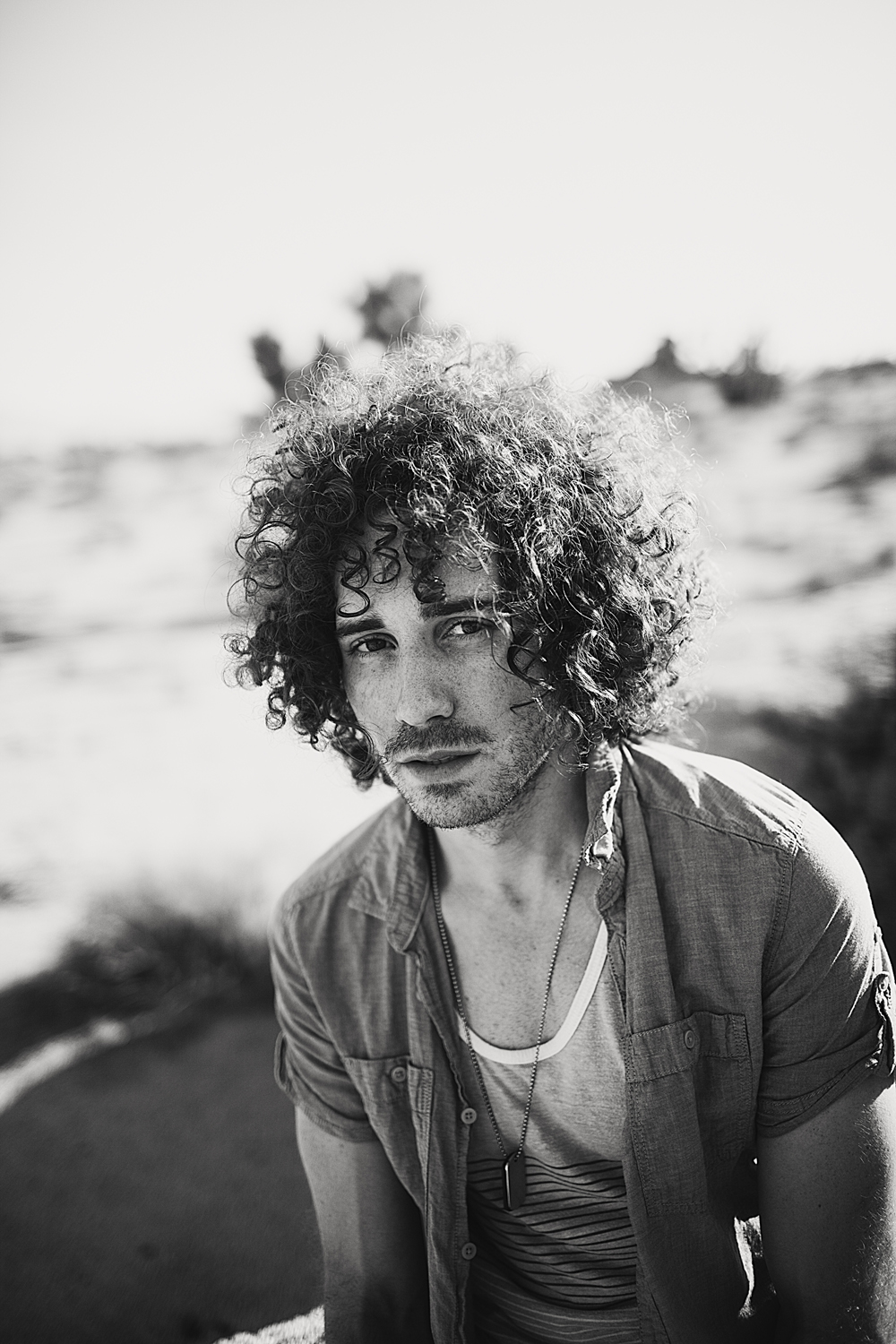 This was taken in the desert outside of Los Angeles.